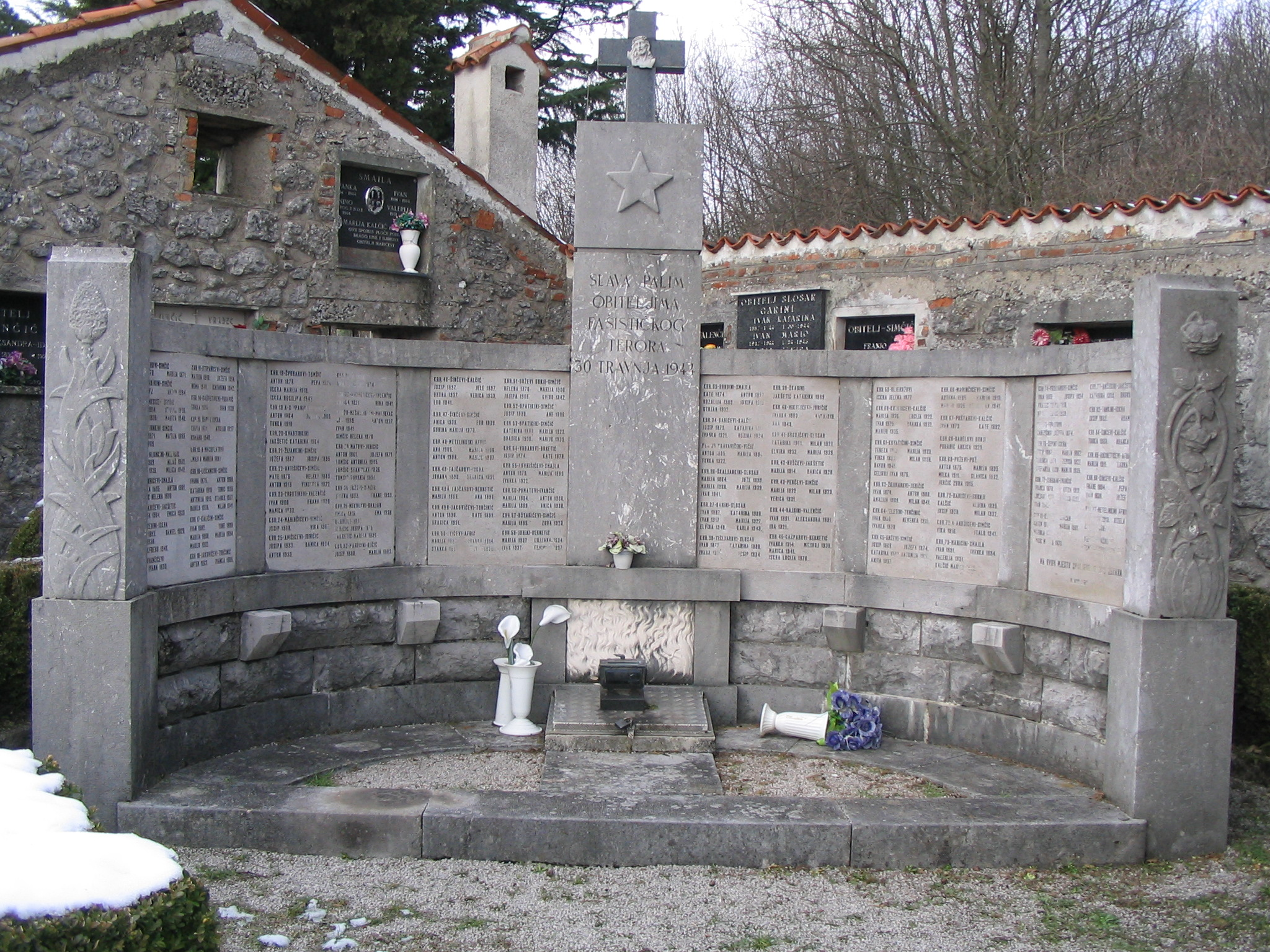 Lipa, Croatia, remembering people killed by italian fascists